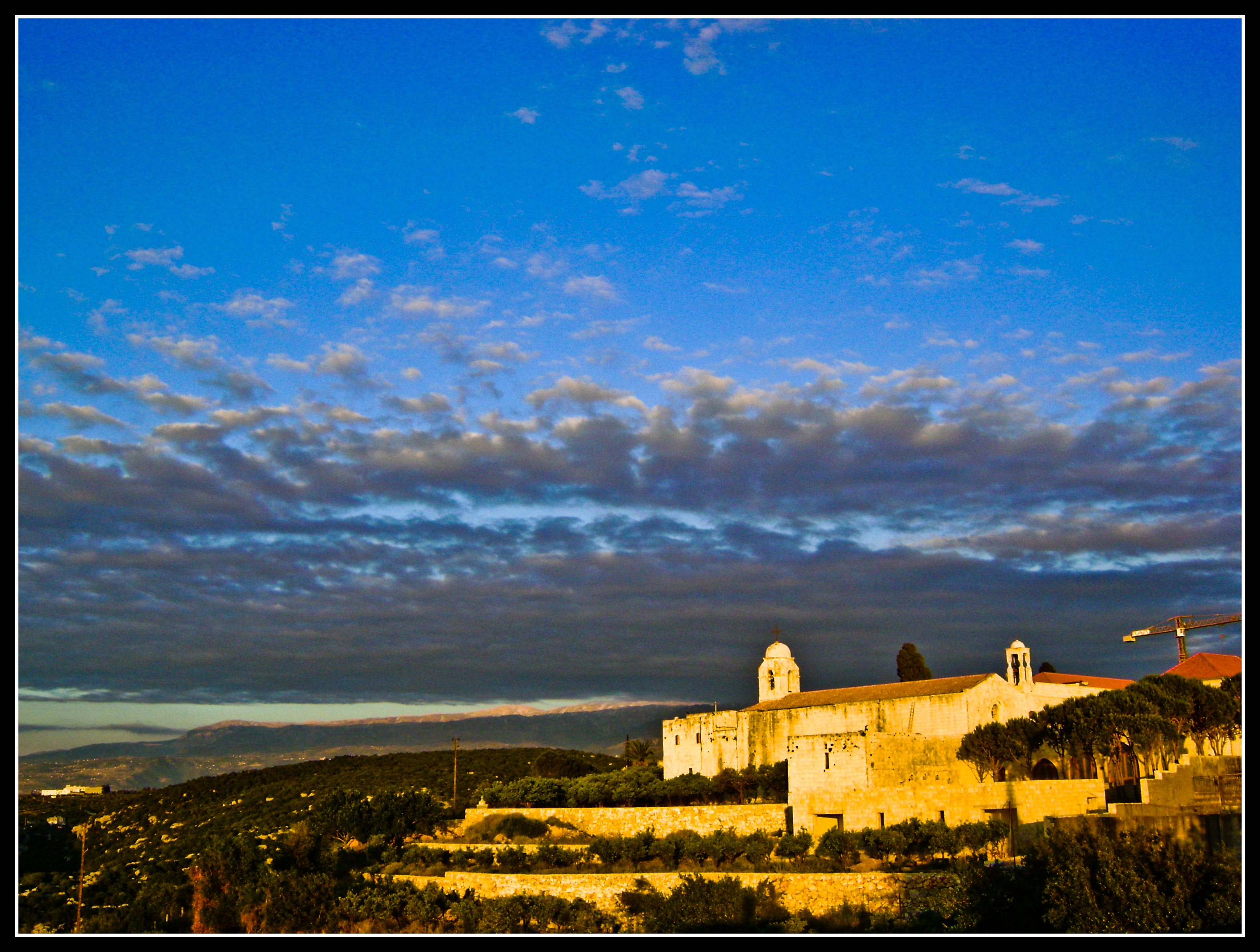 Monastery of Our Lady of Balamand from the rooftop of the Theology Faculty of St. John of Damascus, UOB... the picture was taken at around 7 pm... El Koura, Lebanon